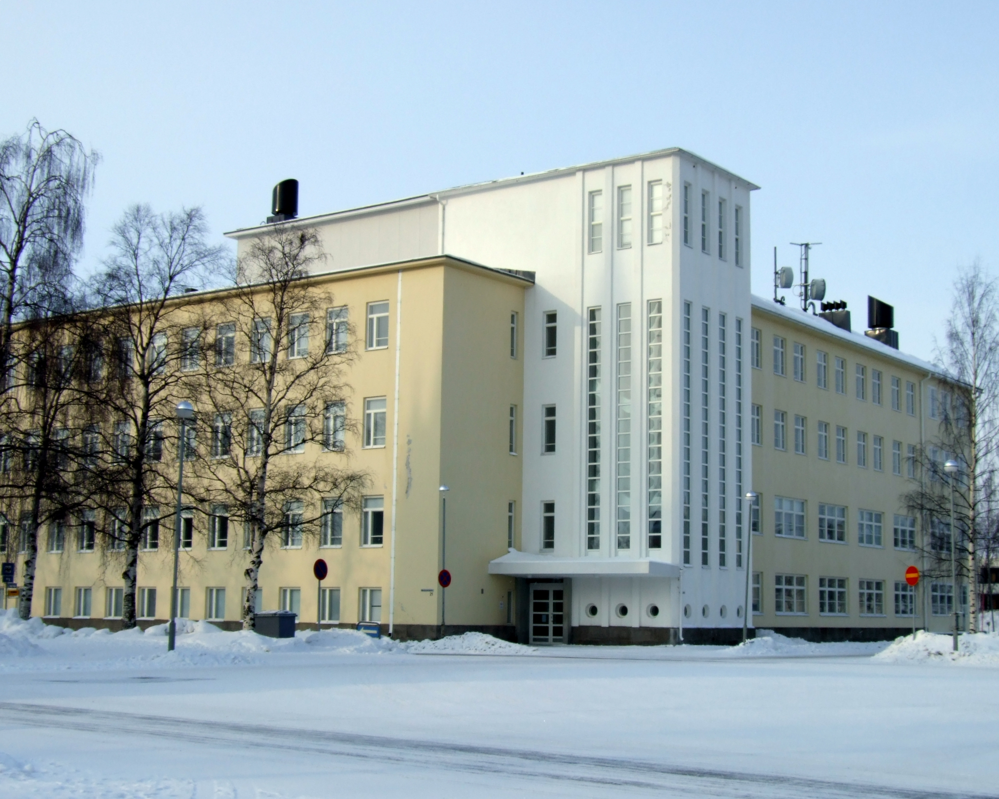 Kemi-Tornio Vocational College Well-Being Department in Kemi, Finland. The school was built in 1938 and designed by architect O. J. A. Viljanen.